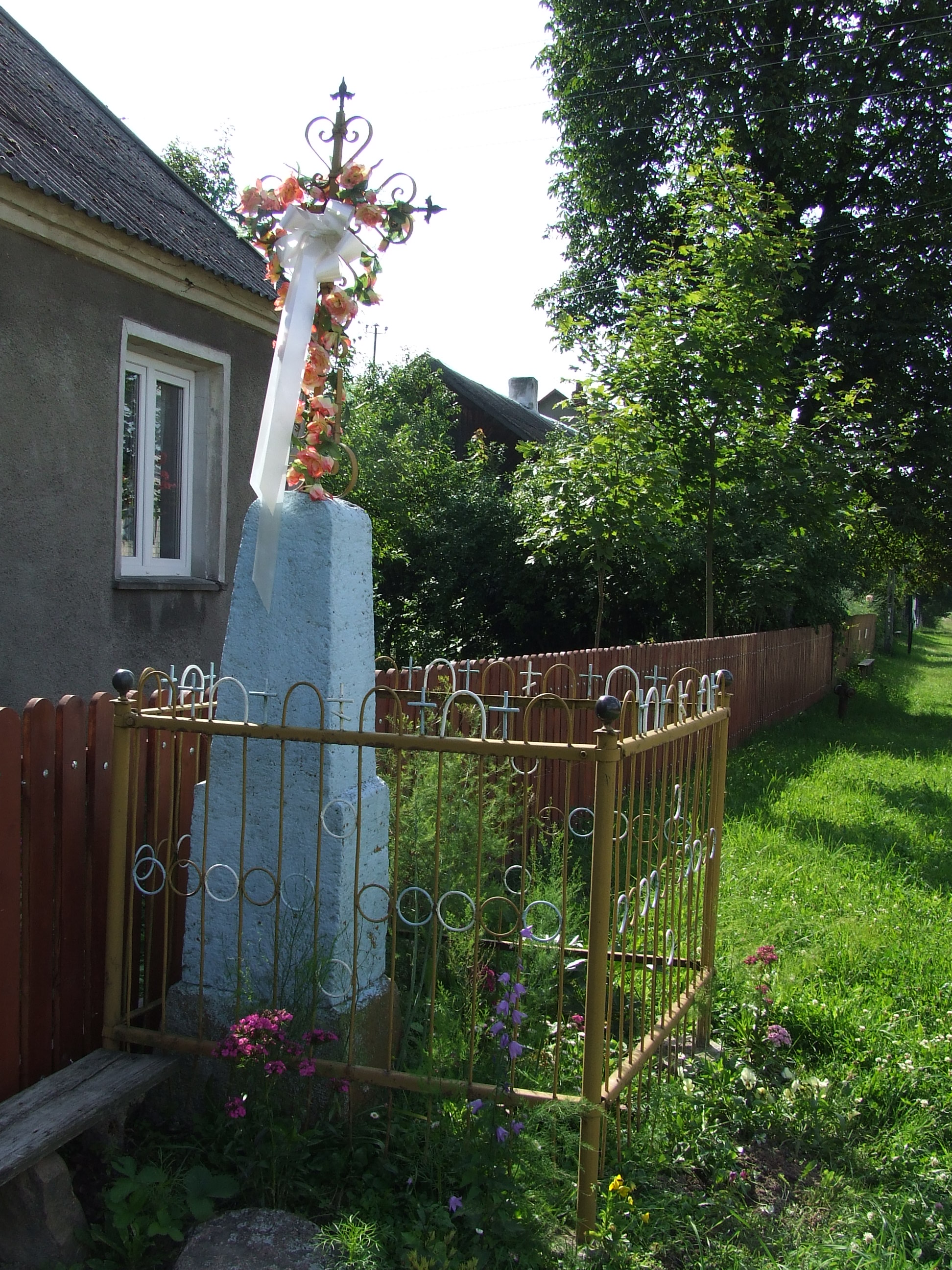 This photo from Podlaskie Voievodeship was taken during Polish Wikiexpedition 2009 set up by Wikimedia Polska Association. The making of this document was supported by Wikimedia Polska.